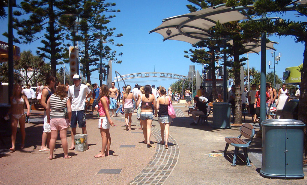 Surfer's Paradise during Schoolies week 2004.